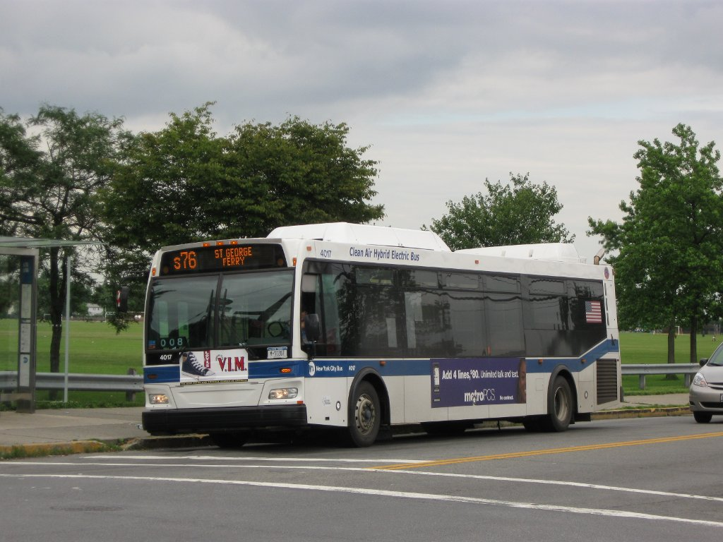 MTA New York City Bus #4017 picks up a customer by New Dorp High School, en route to St. George.